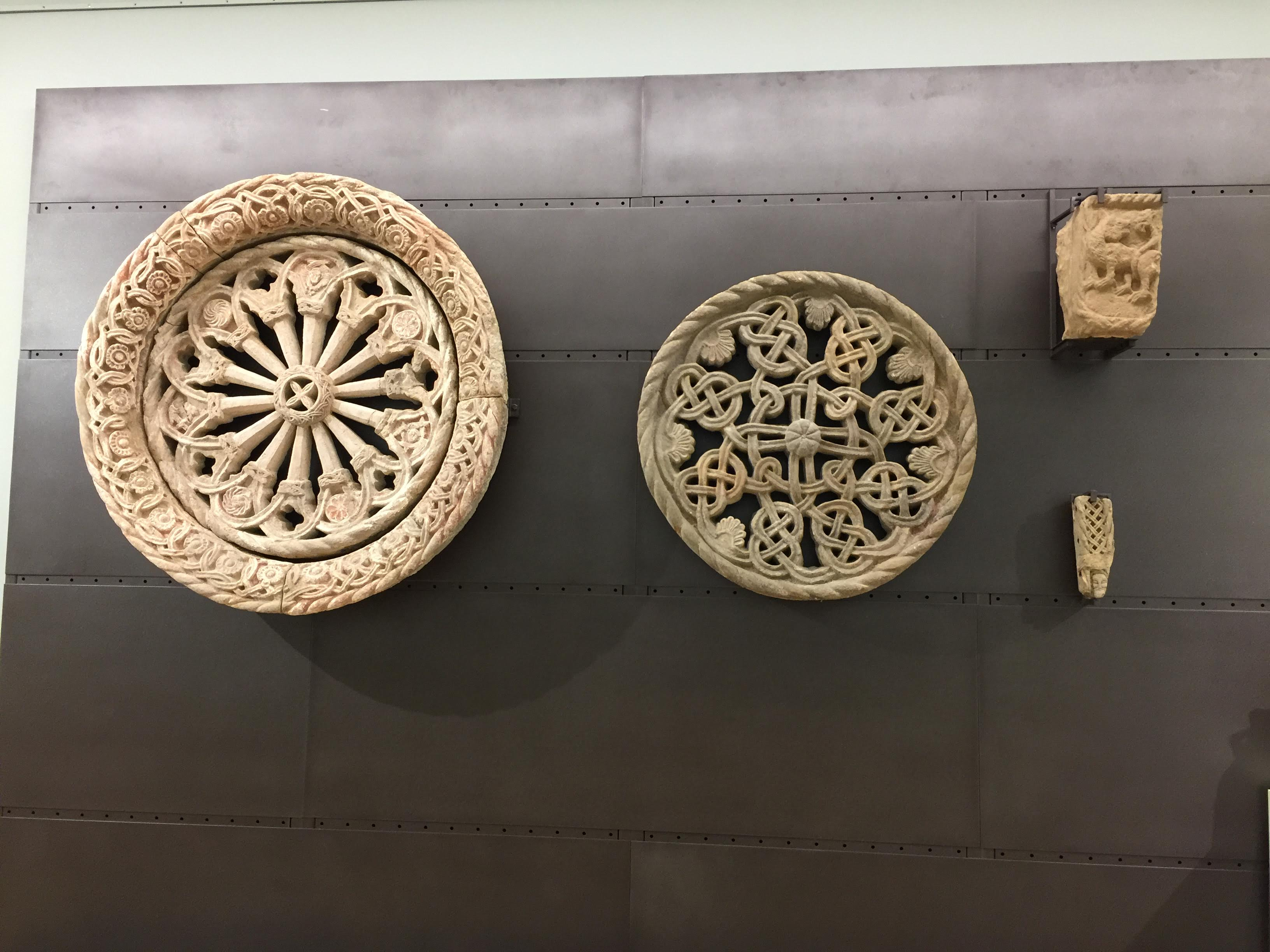 Ornaments from Serbian medieval churches